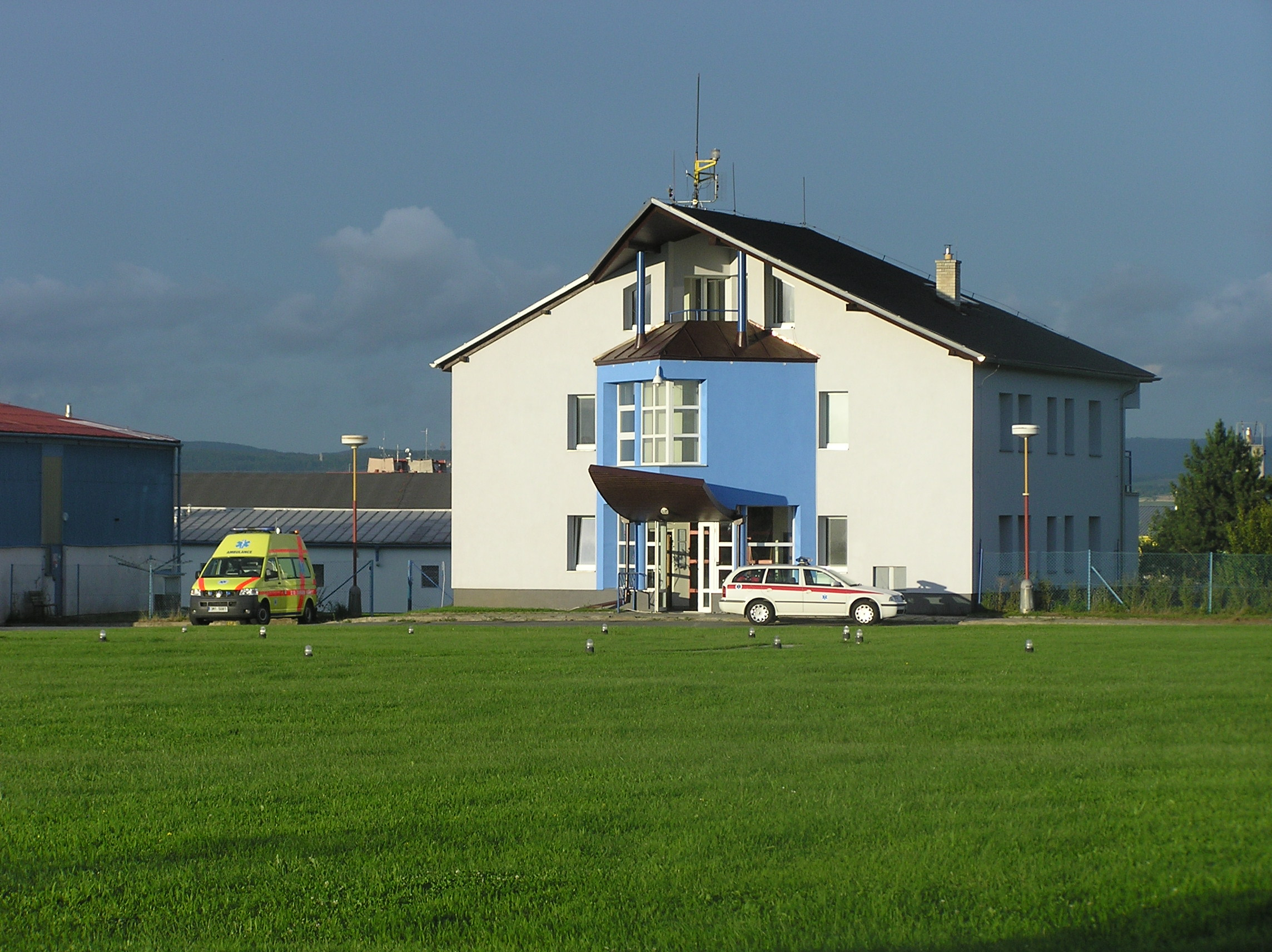 Station of the Emergency Medical Service of the Olomouc Region, Czech Republic. There is HEMS station Kryštof 09 too. Česky: Výjezdové stanoviště a provozní základna HEMS letecké záchranné služby, Zdravotnická záchranná služba Olomouckého kraje